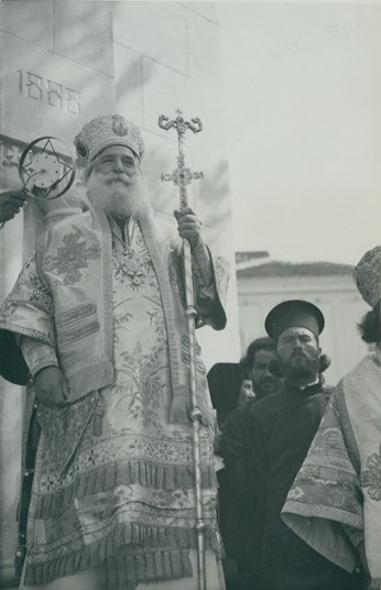 Boris III of Bulgaria in Vidin, Bulgaria